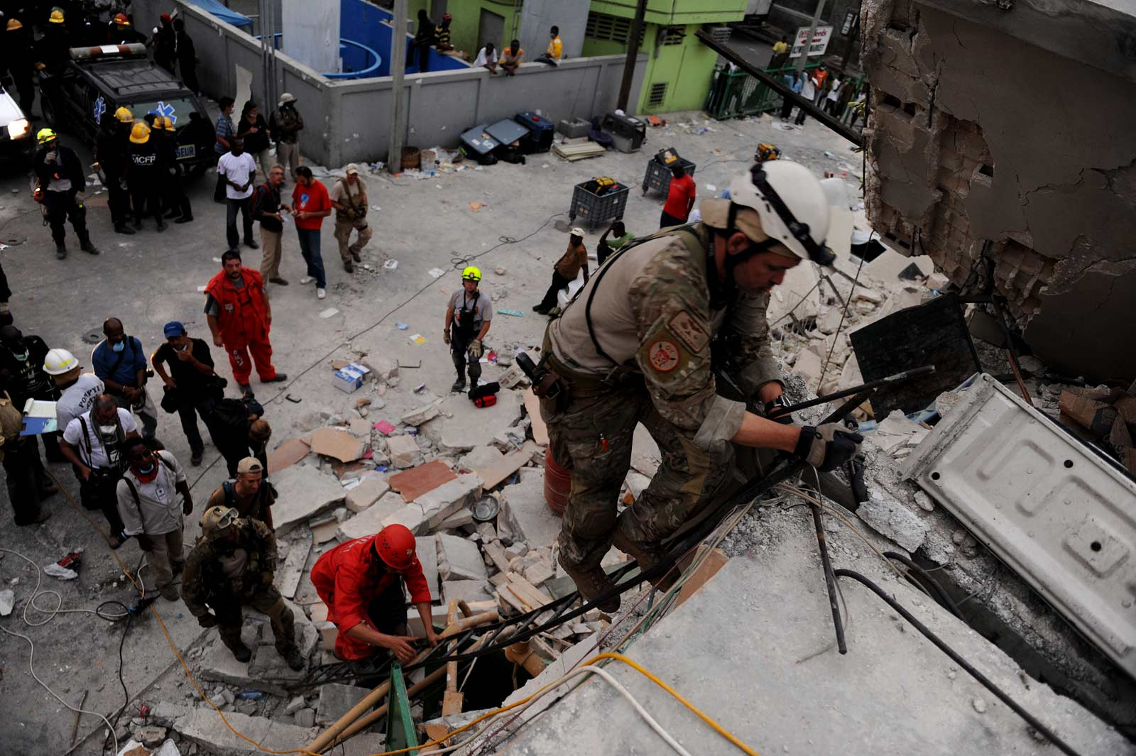 A U.S. Air Force pararescueman from the 23rd Special Tactics Squadron, Air Force Special Operations Command, Hurlburt Field, Fla., and members of various rescue teams climb a ladder to get to a 25-year-old woman who had been trapped in a collapsed building for seven days Jan. 19, 2010, in Port-au-Prince, Haiti. U.S. Department of Defense assets were deployed to assist in the relief effort under way after a 7.0-magnitude earthquake hit the city Jan. 12, 2010. U.S. Air Force photo by Tech. Sgt. James L. Harper Jr.